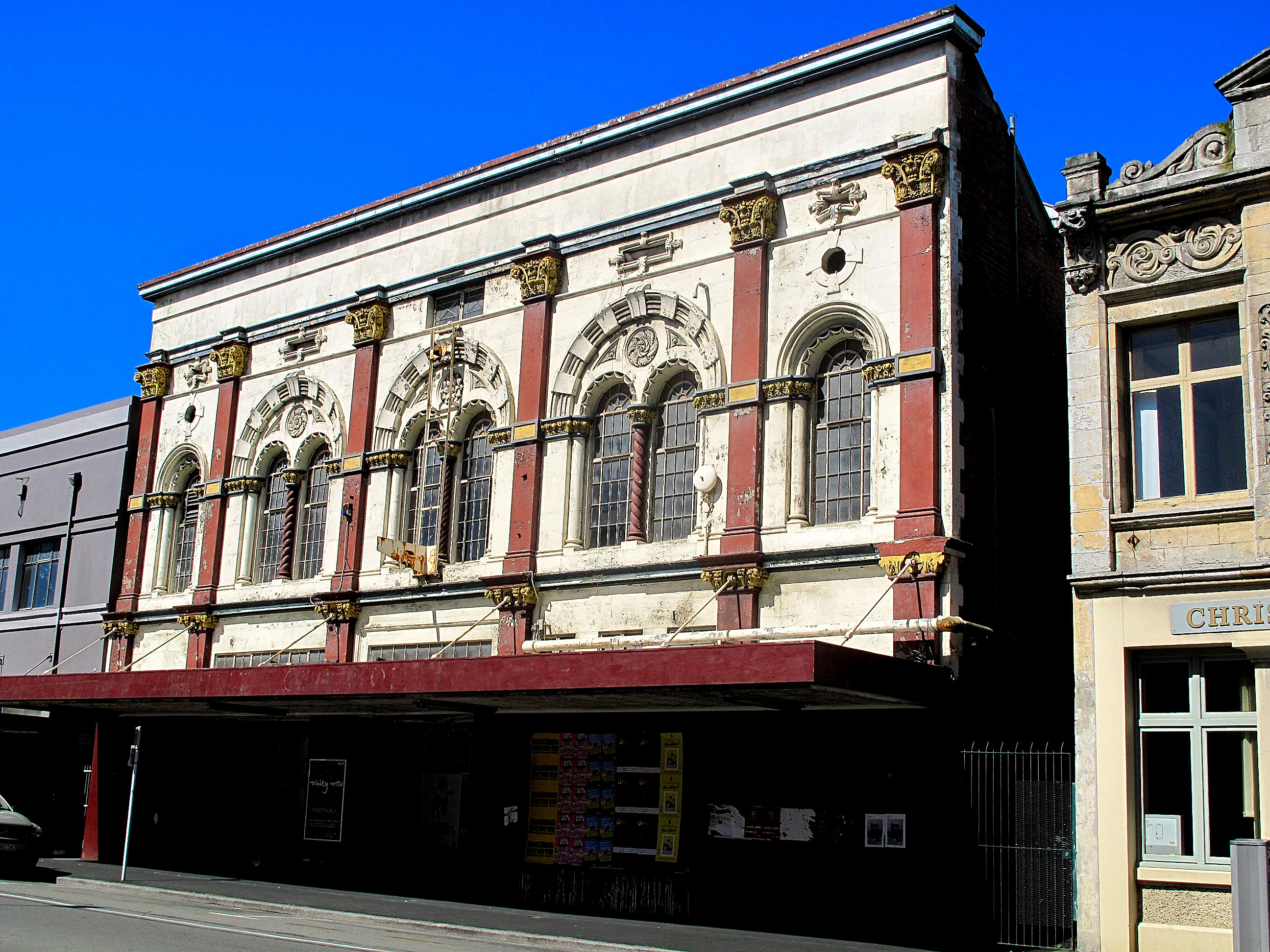 The disused Odeon Theatre in Tuam Street, Christchurch. Category I. (Wed 6 October 2010).